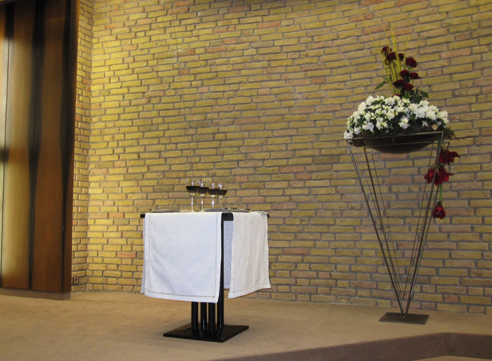 Beim Abendmahl des Herrn im Königreichssaal der Zeugen Jehovas